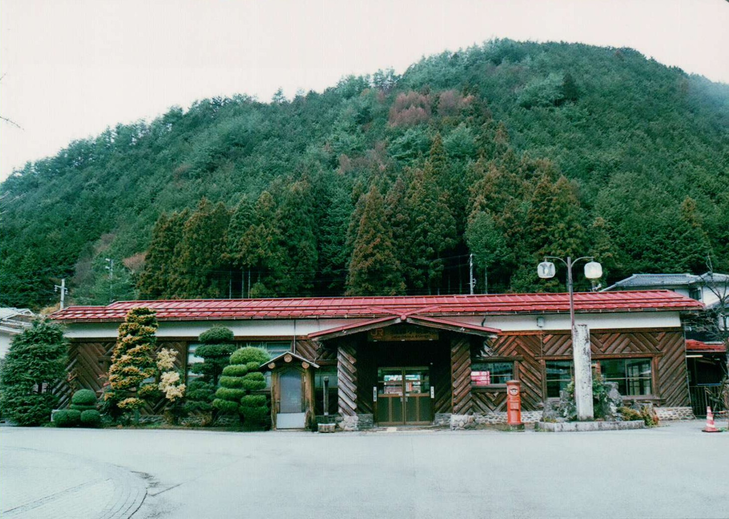 Hida-Osaka Station